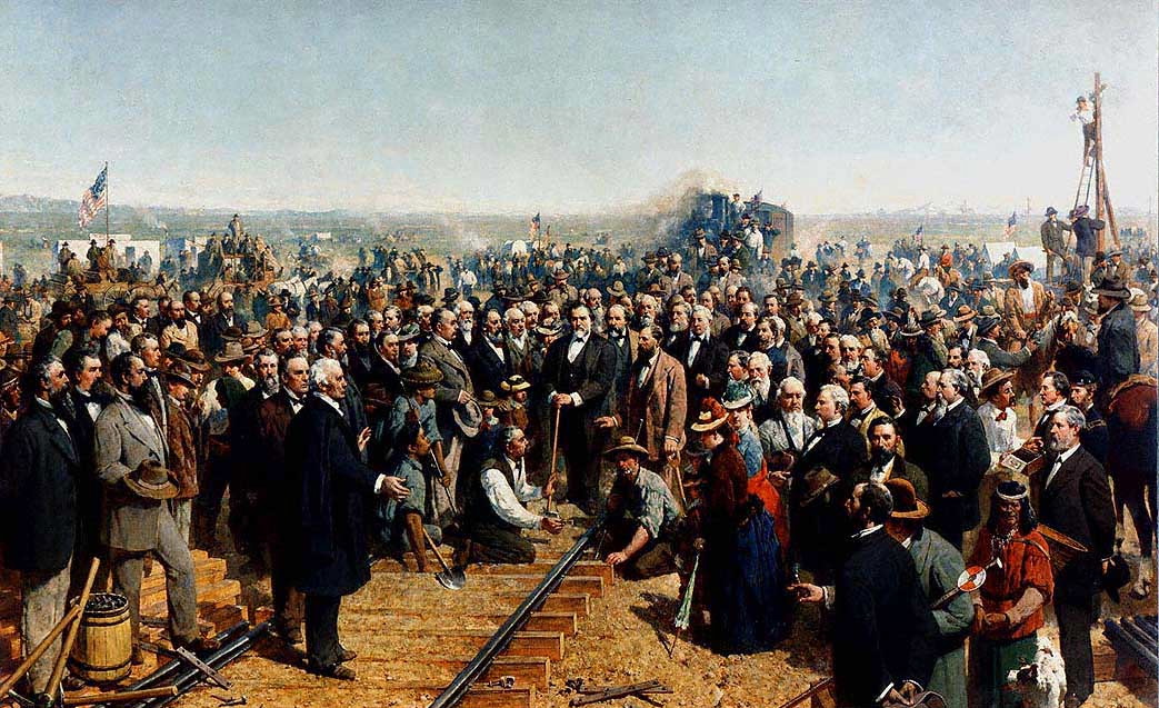 The painting depicts the ceremony of the driving of the "Last Spike" at Promontory Summit, UT, on May 10, 1869, joining the rails of the Central Pacific Railroad and the Union Pacific Railroad.